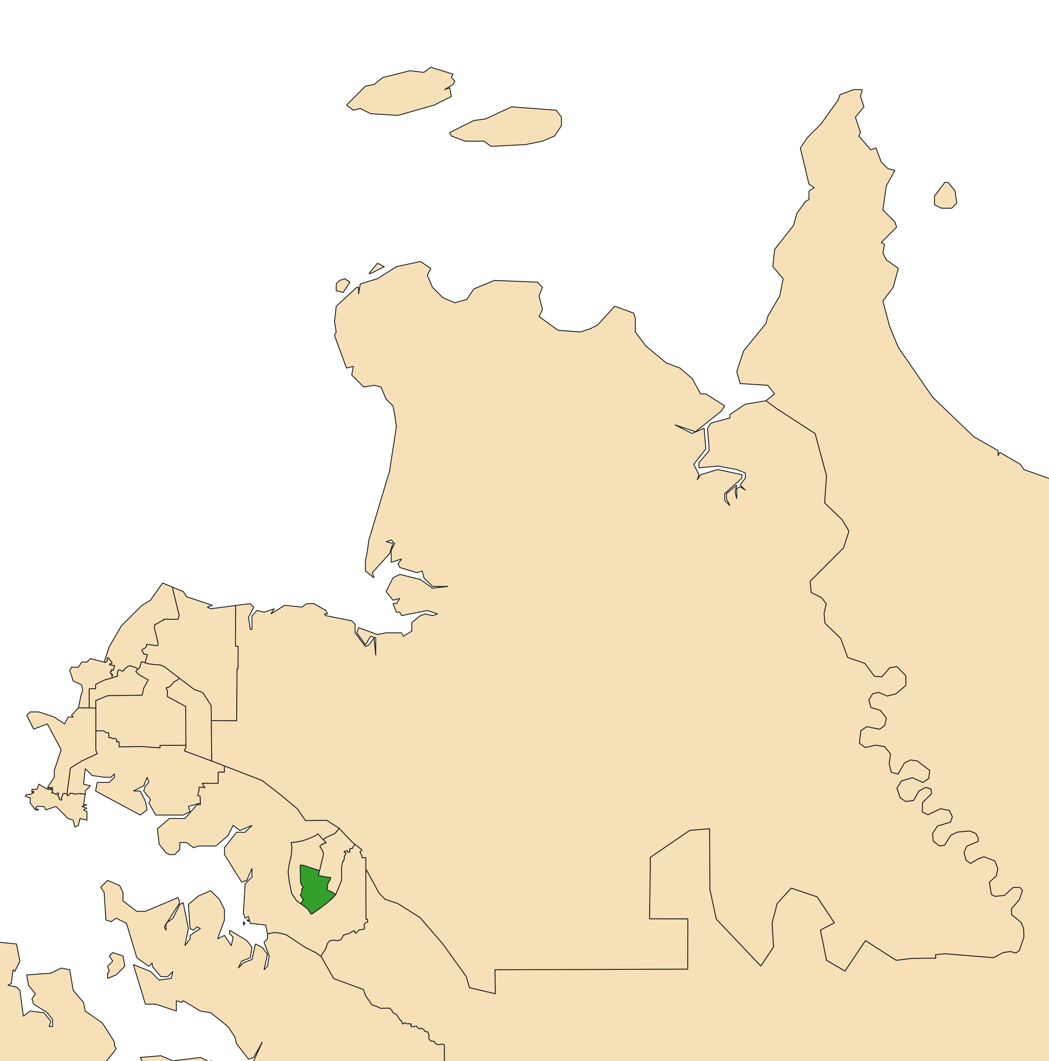 Location of the electoral division of Blain (dark green) in the Darwin/Palmerston area of the Northern Territory at the 2020 Northern Territory election